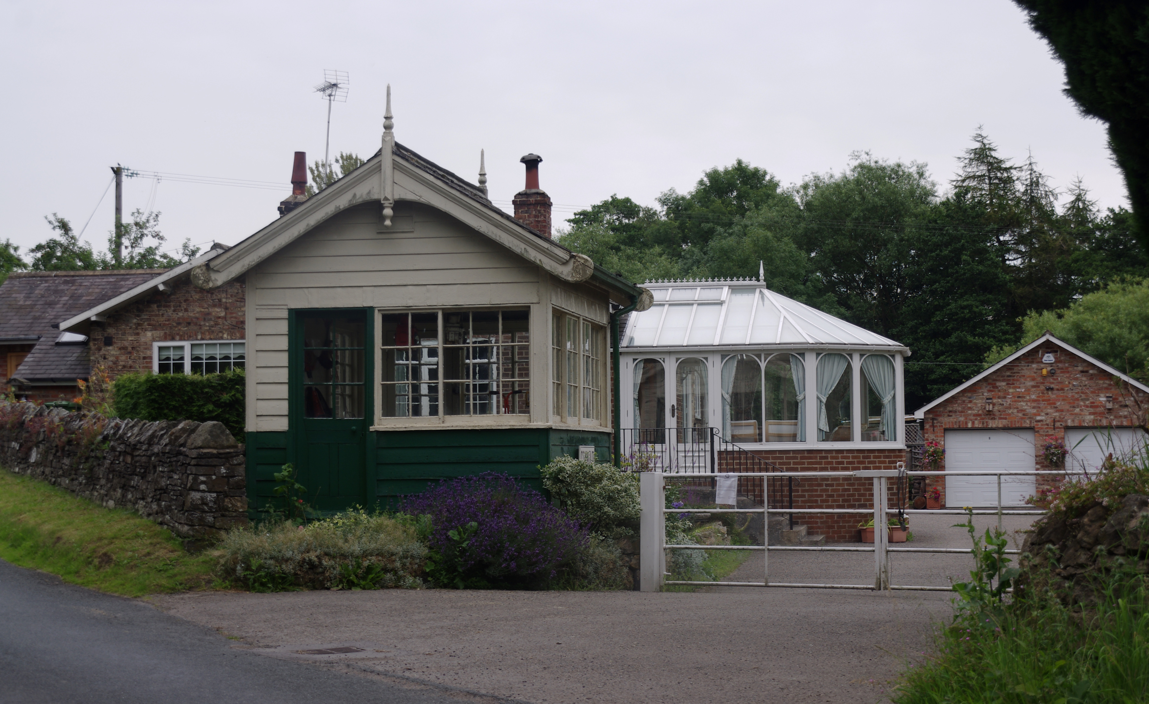 The remains of Coxwold railway station, now a private house.